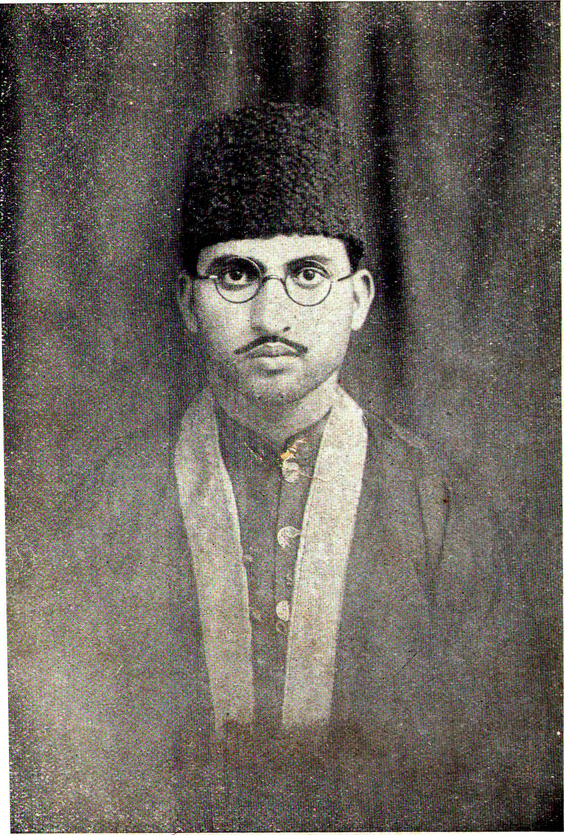 Syed Mohammad Ali Shah 'Jafri' Niazi - Maikash Akbarabadi